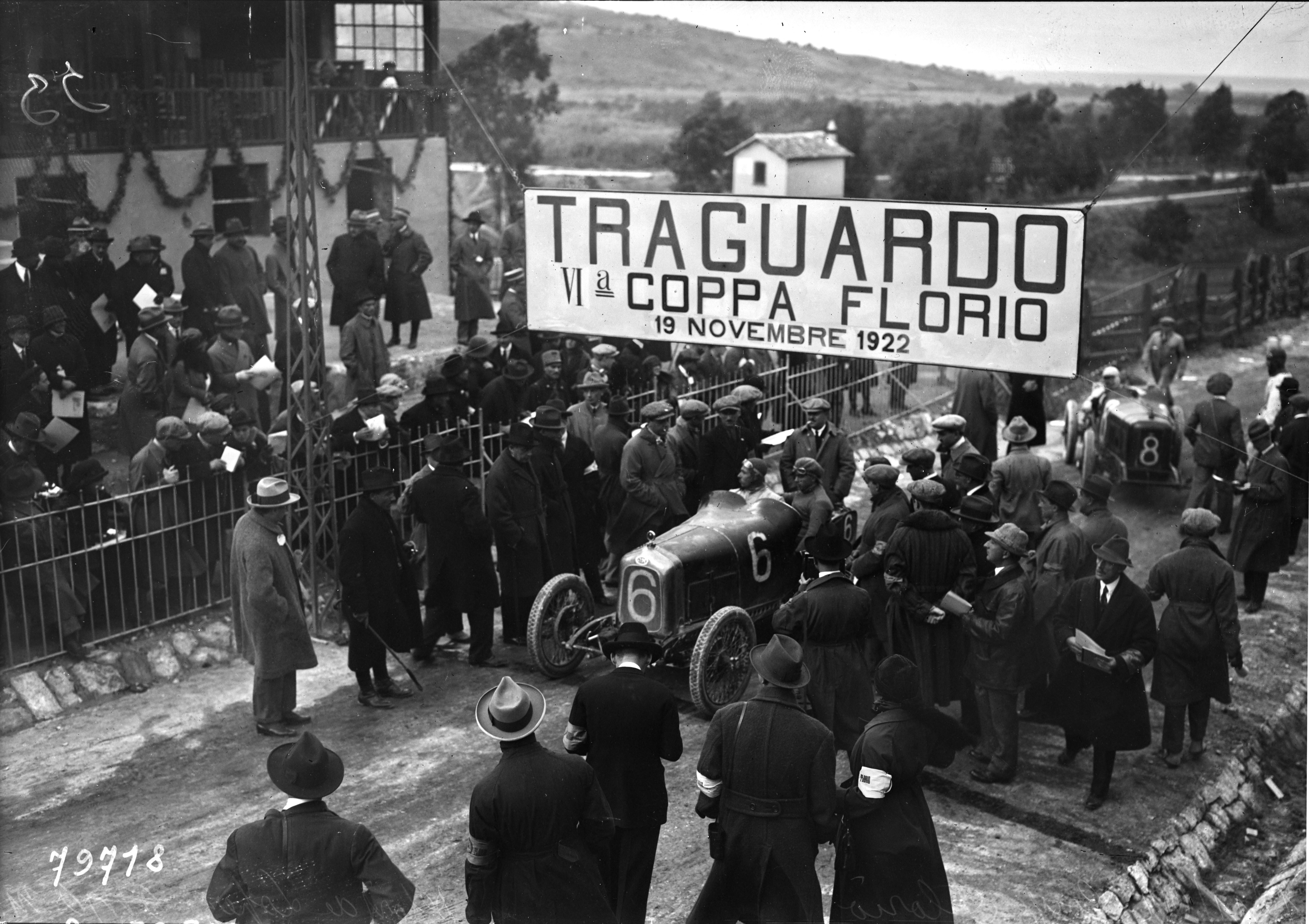 Luigi Lopez at the 1922 Coppa Florio